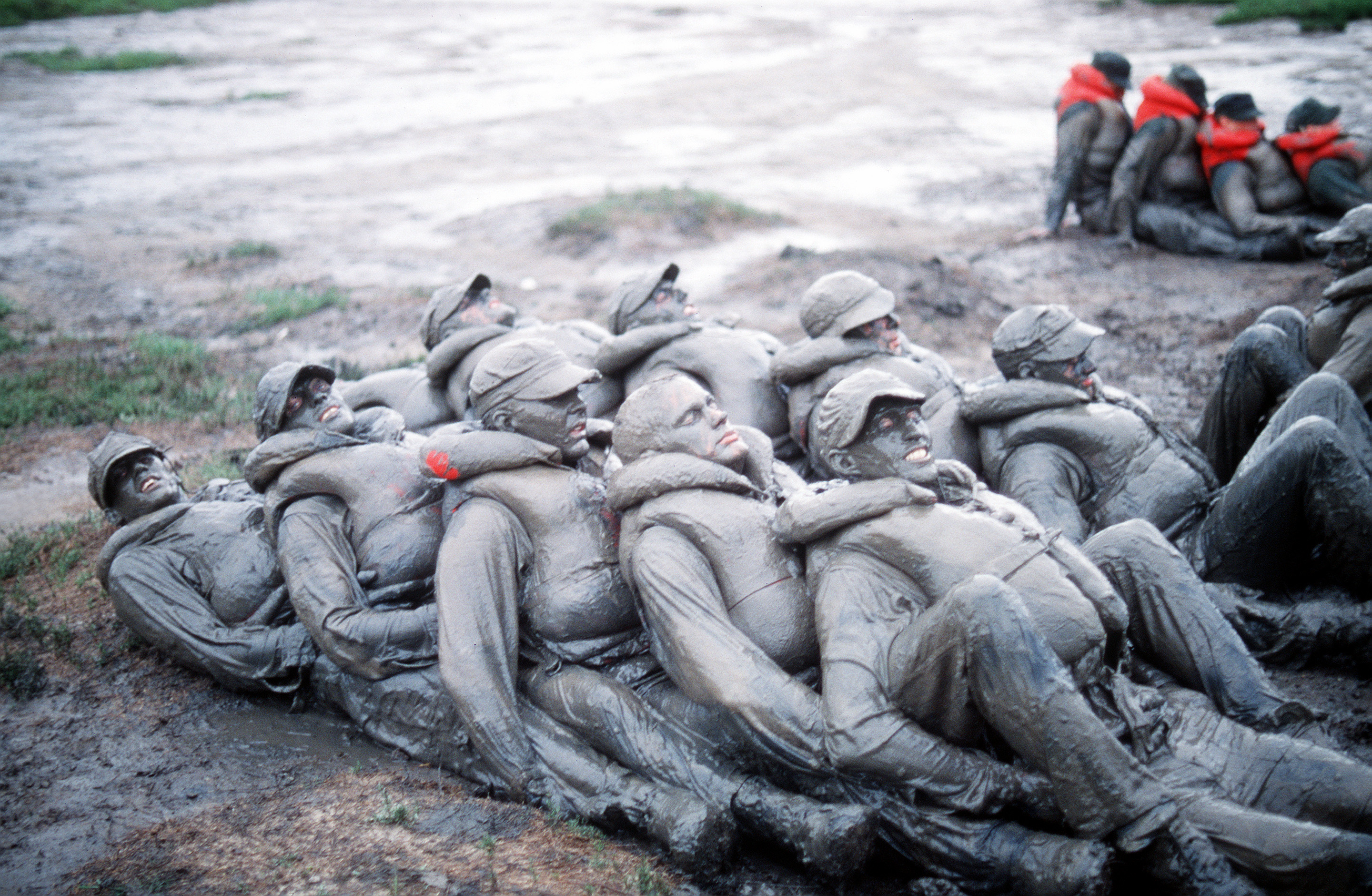 Image of BUD/S trainees covered in mud during Hell Week.